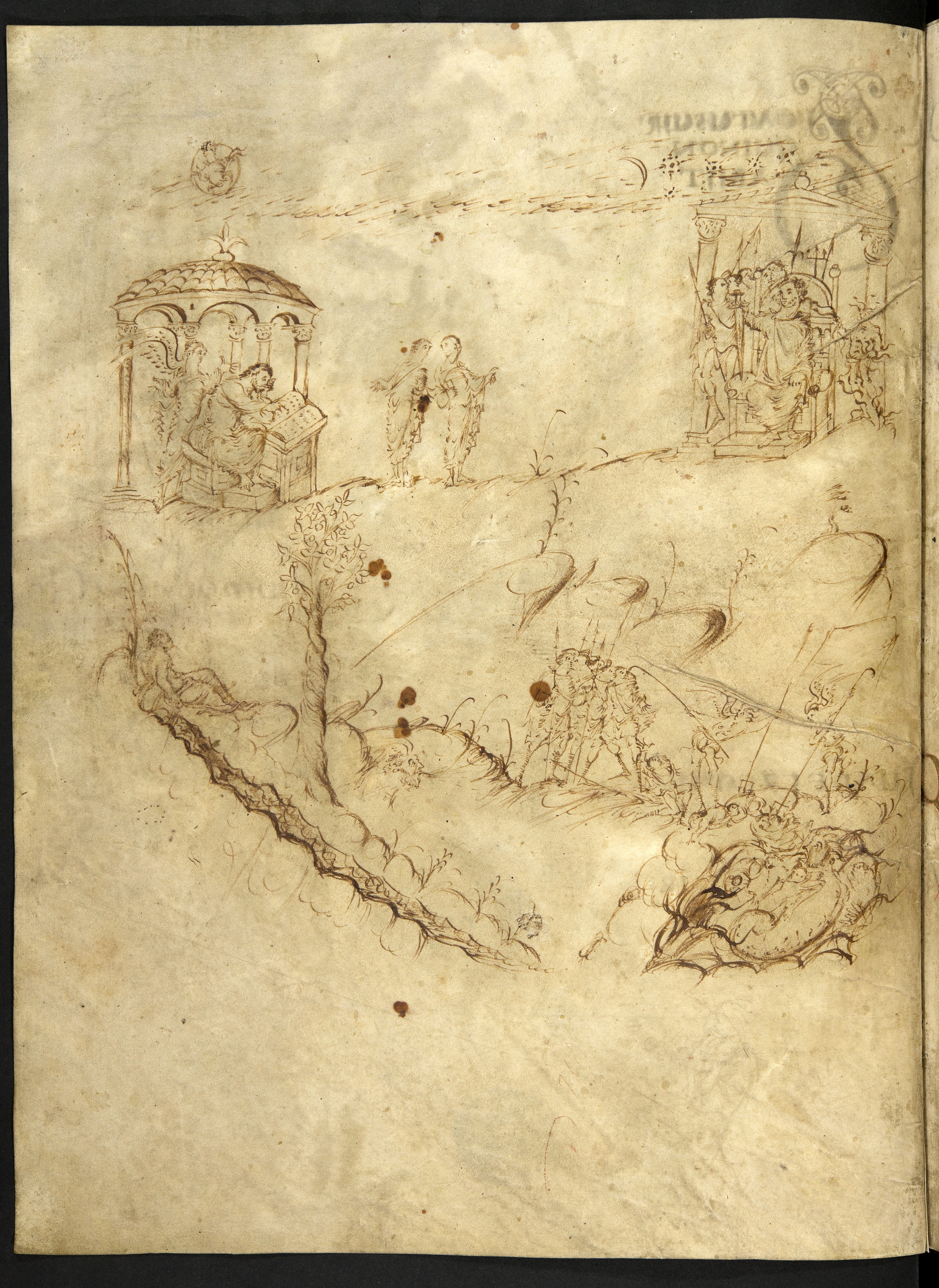 From the Utrecht Psalter. Category:Illuminated manuscript images